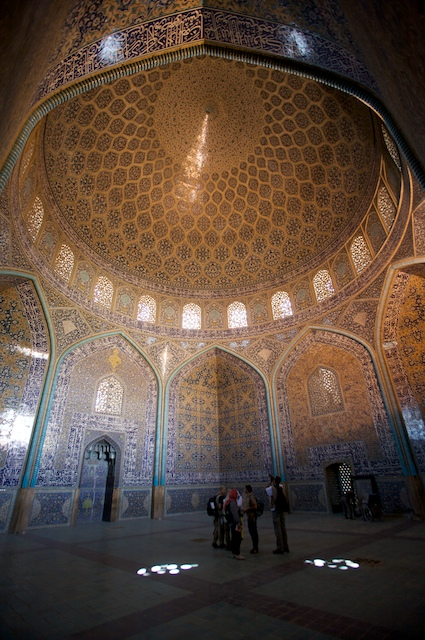 View of the Sheikh Lotfollah Mosque dome interior — Isfahan, Iran.